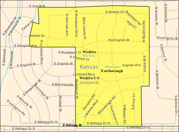 Detailed map of Eastborough, Kansas